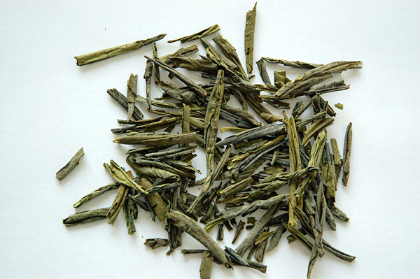 Lu'an Melon Seed tea, 2011